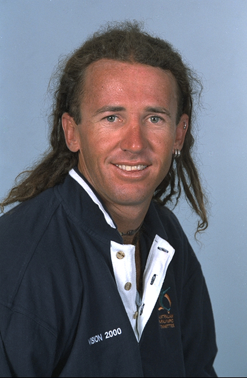 Portrait of Australian wheelchair tennis player David Johnson, 2000 Australian Paralympic Team athlete